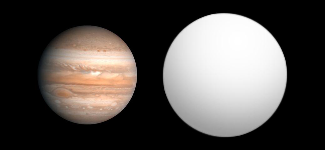 Comparison of best-fit size of the exoplanet OGLE-TR-132 b with the Solar System planet Jupiter, as reported in the Extrasolar Planets Encyclopaedia[1] as of 2010-10-03. ↑ Extrasolar Planets Encyclopaedia (2010-09-30). Retrieved on 2010-10-03.